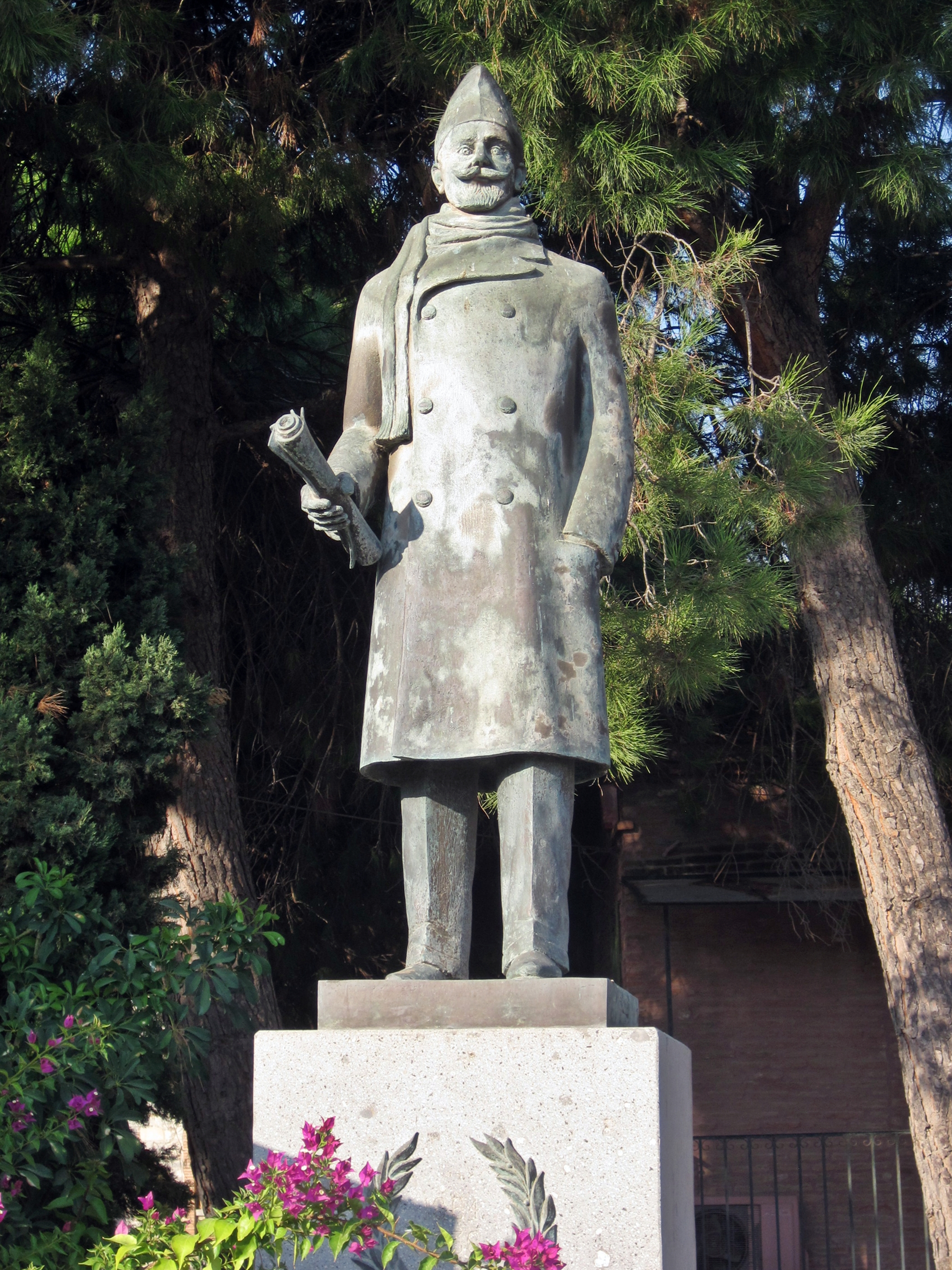 Eleftherios Venizelos statue, Kalloni, Lesbos, Greece